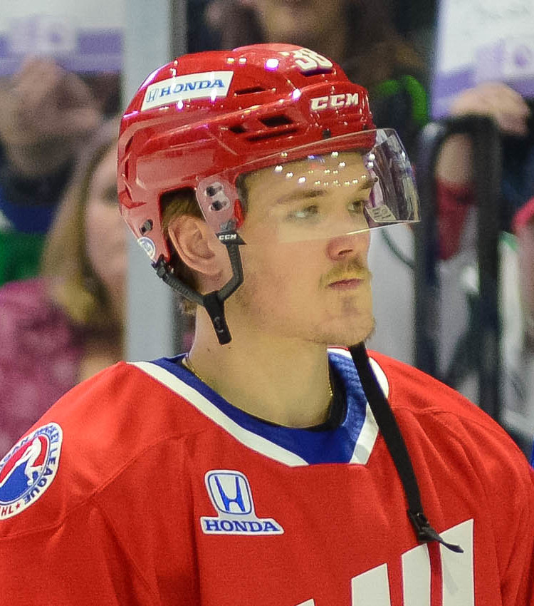 (Lindsay Mogle/ AHL)